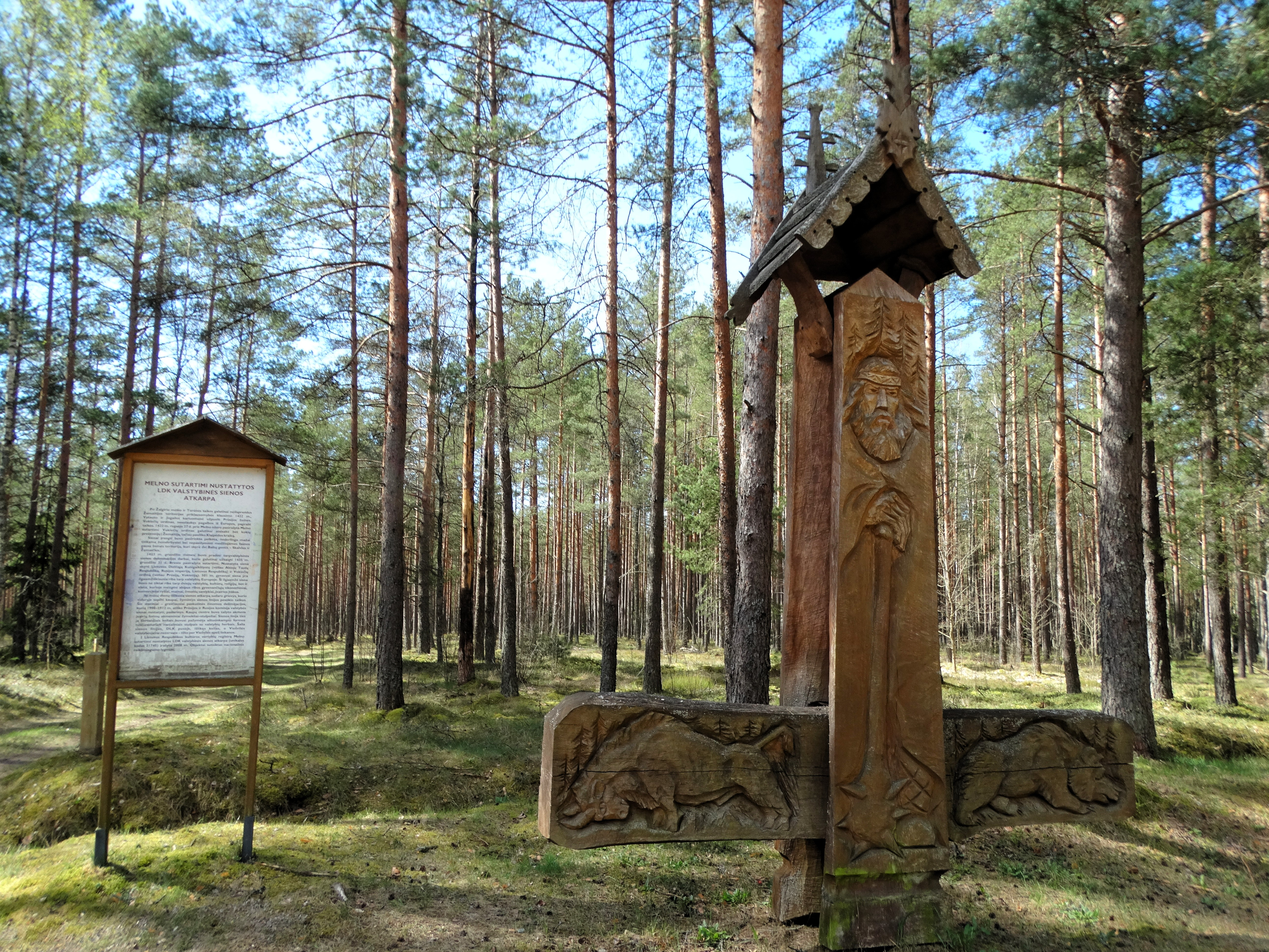 Treaty of Melno, former state border, Jurbarkas District, Lithuania